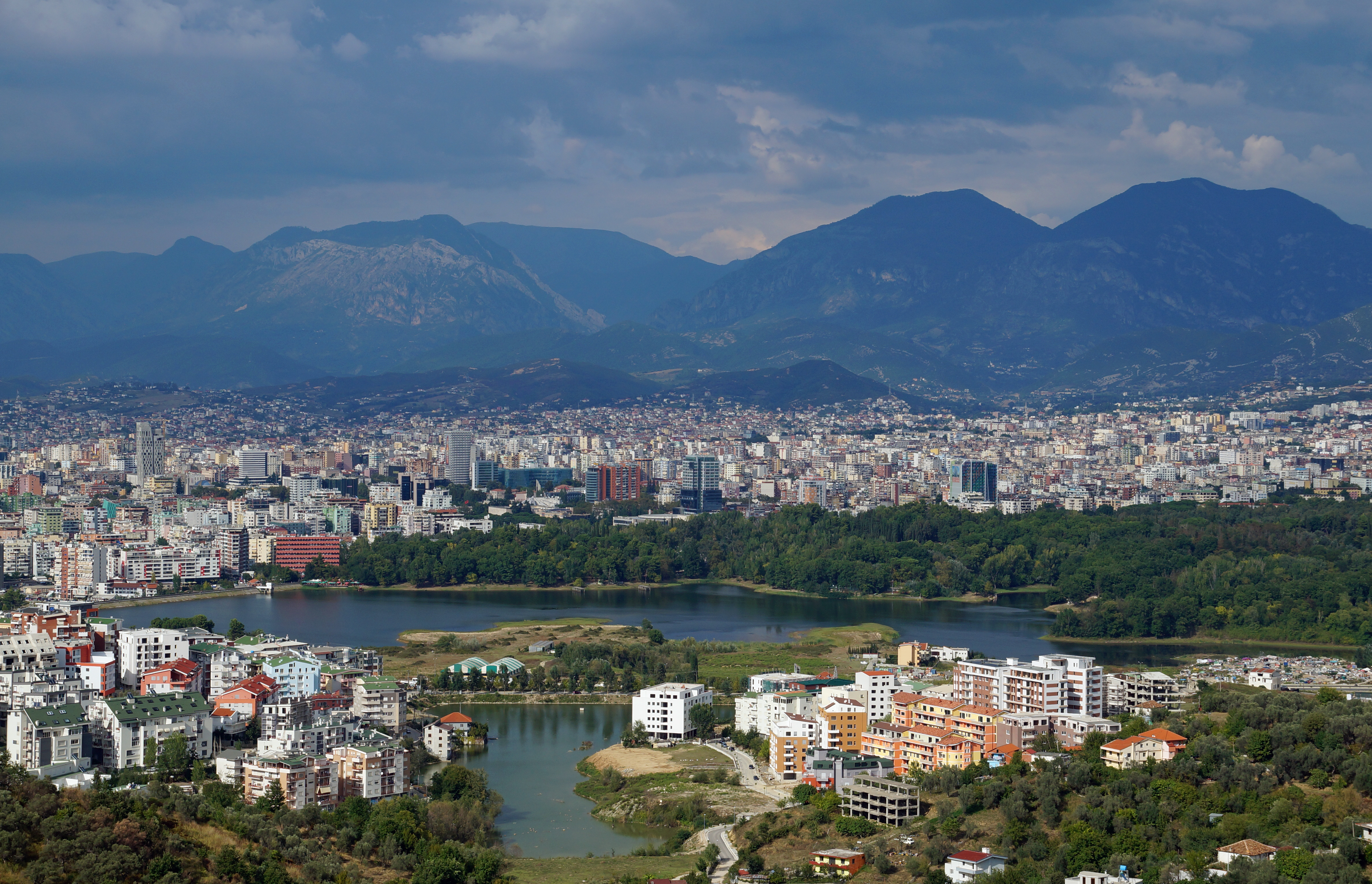 Tirana from South with Artificial Lake and Great Park in the front